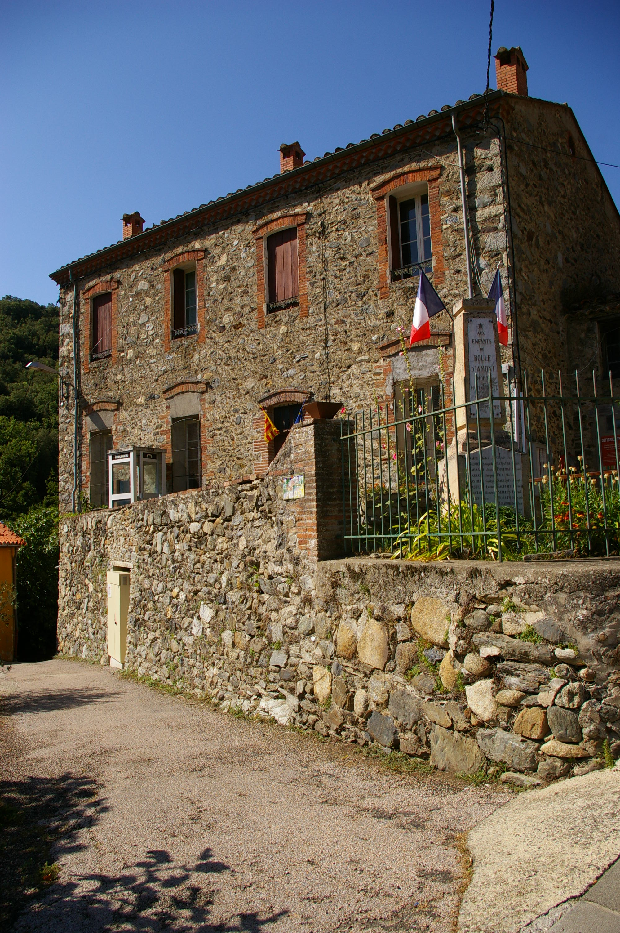 Town hall of Boule-d'Amont.